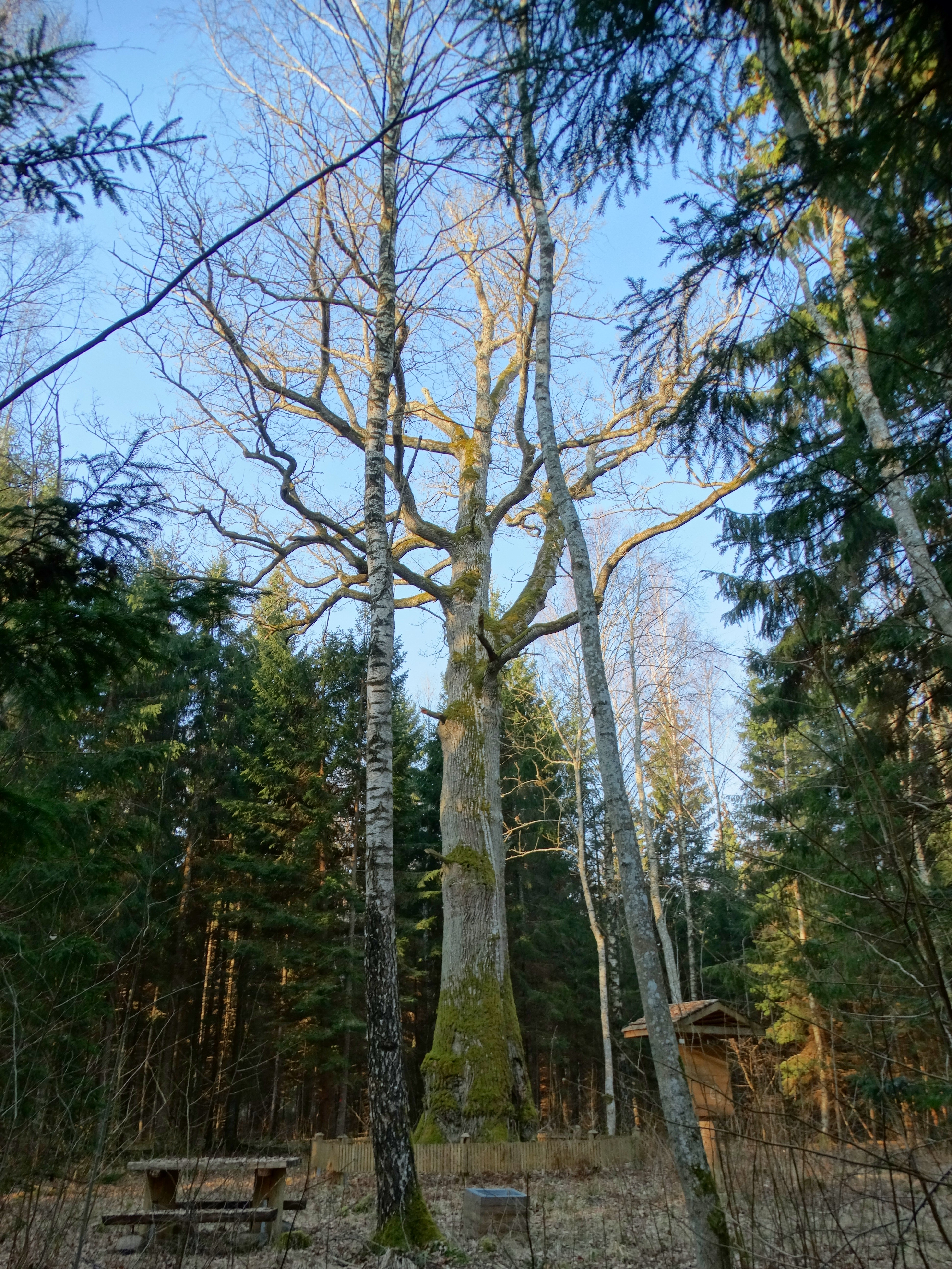 Oak, Paežeriai Forest, Šiauliai district, Lithuania